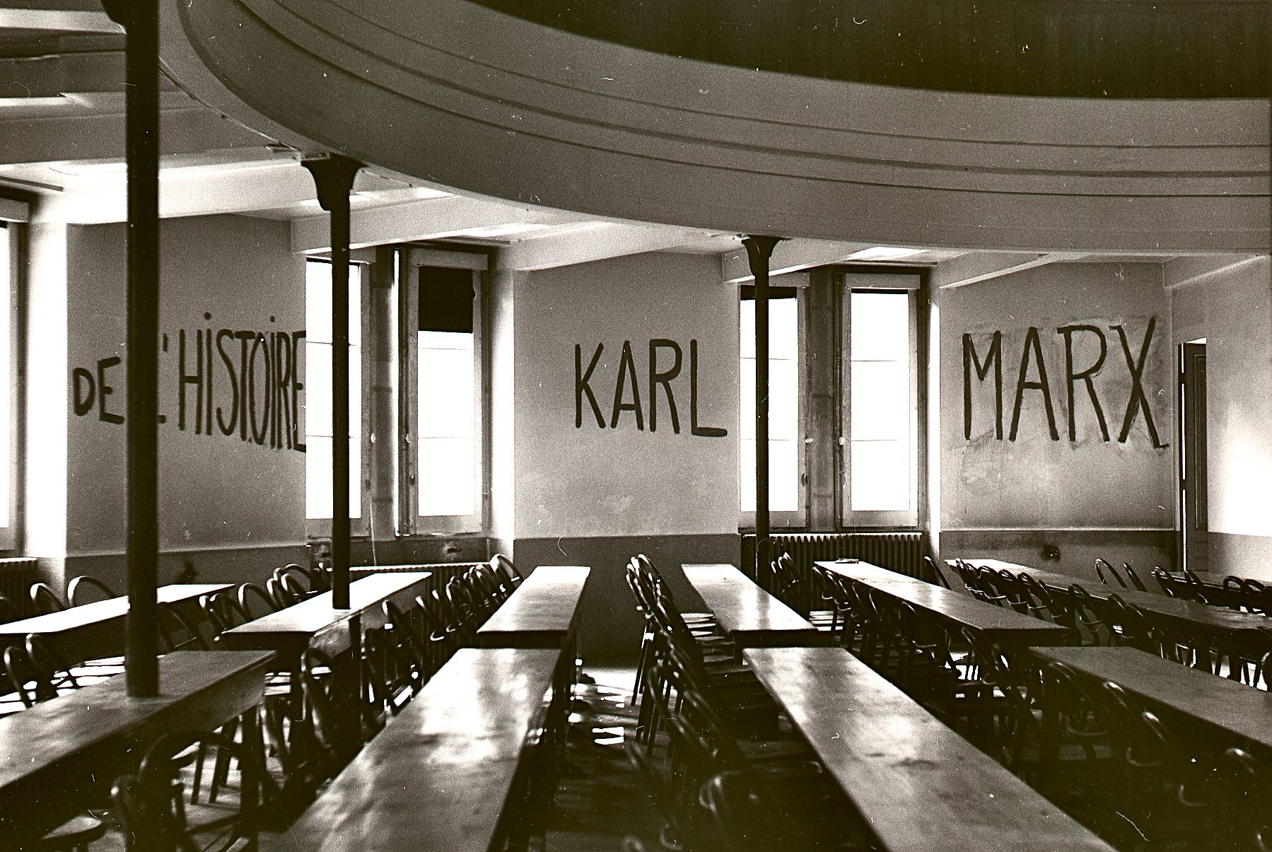 Classroom at the University of Lyon with markings on wall reading "DE L'HISTOIRE KARL MARX," made during student occupation of parts of the campus as part of the May 1968 events in France. Other information Photo by George Garrigues